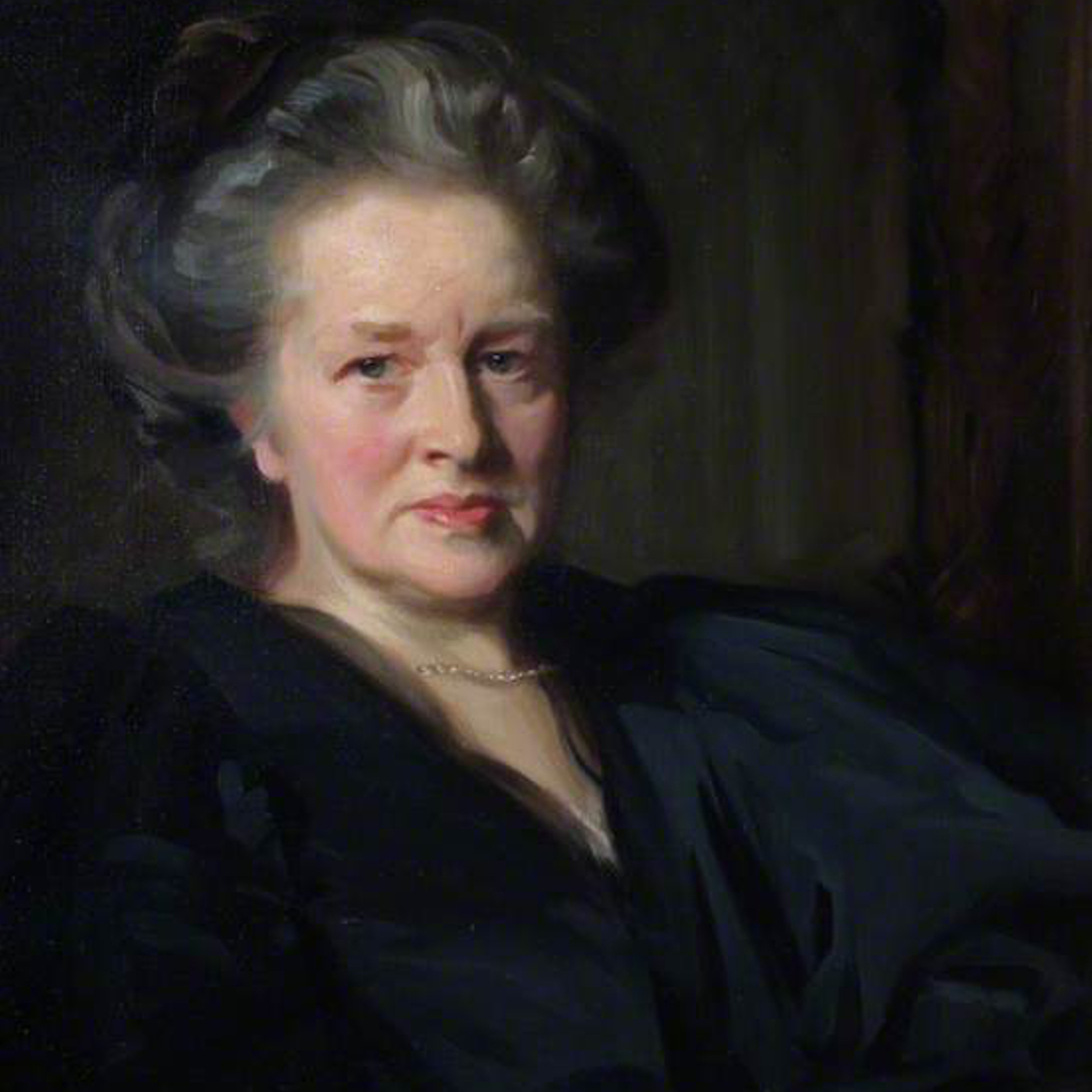 A 1900 portrait of Elizabeth Garrett Anderson, LSA, MD (9 June 1836 – 17 December 1917), an English physician and feminist, the first Englishwoman to qualify as a physician and surgeon in Britain, the co-founder of the first hospital staffed by women, the first dean of a British medical school, the first female M.D. in France, the first woman in Britain to be elected to a school board and the first female mayor in Britain.